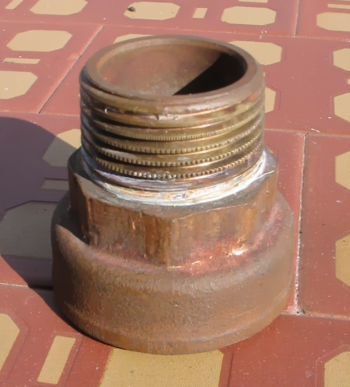 Hydraulic with toothed thread